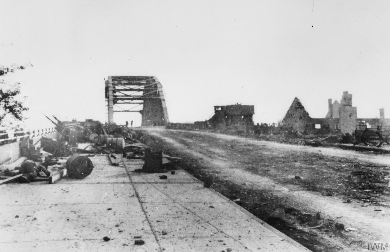 The vital bridge at Arnhem after the British paratroops had been driven back